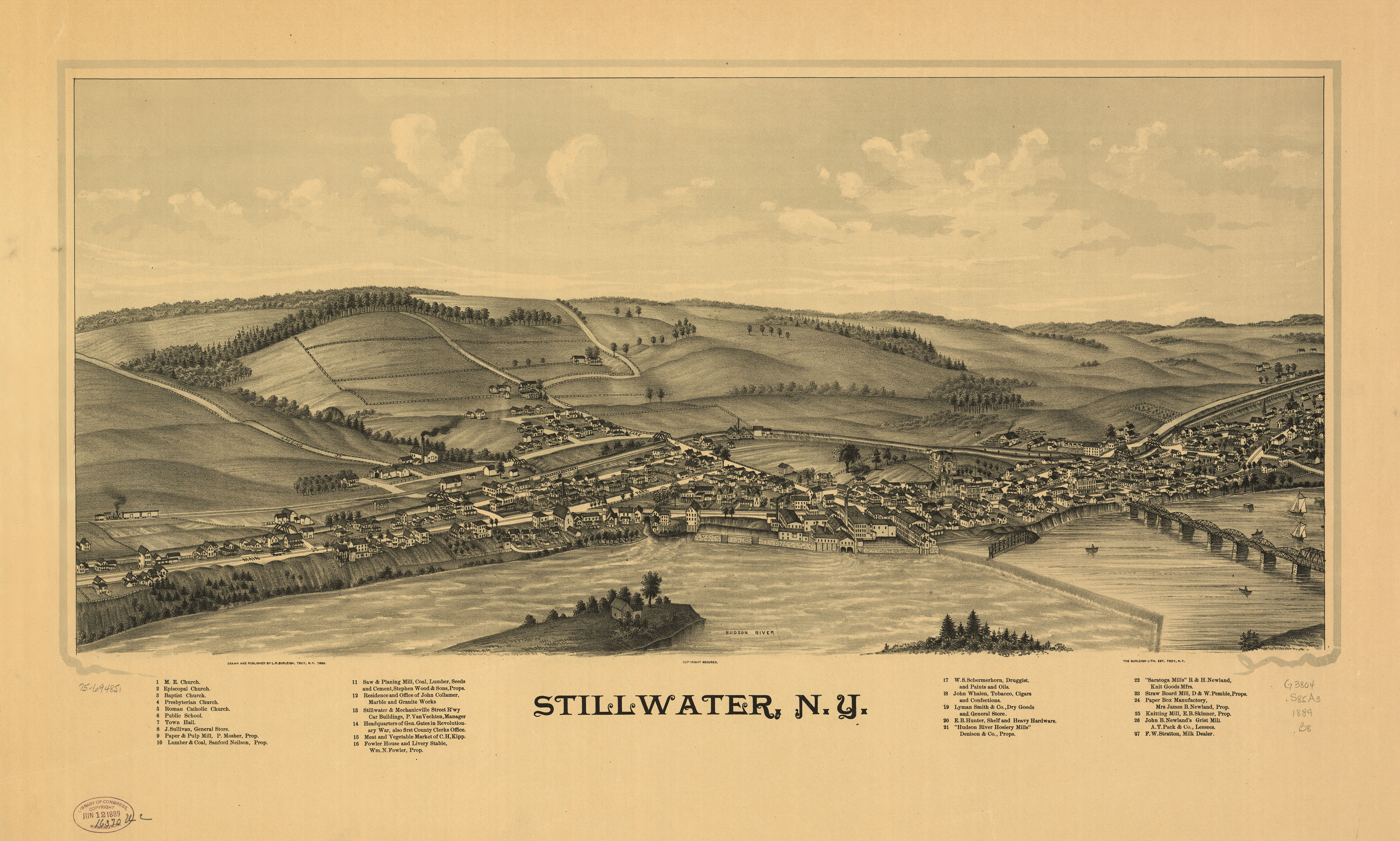 Perspective map not drawn to scale. Bird's-eye-view. LC Panoramic maps (2nd ed.), 637 Available also through the Library of Congress Web site as a raster image. Indexed for points of interest. AACR2